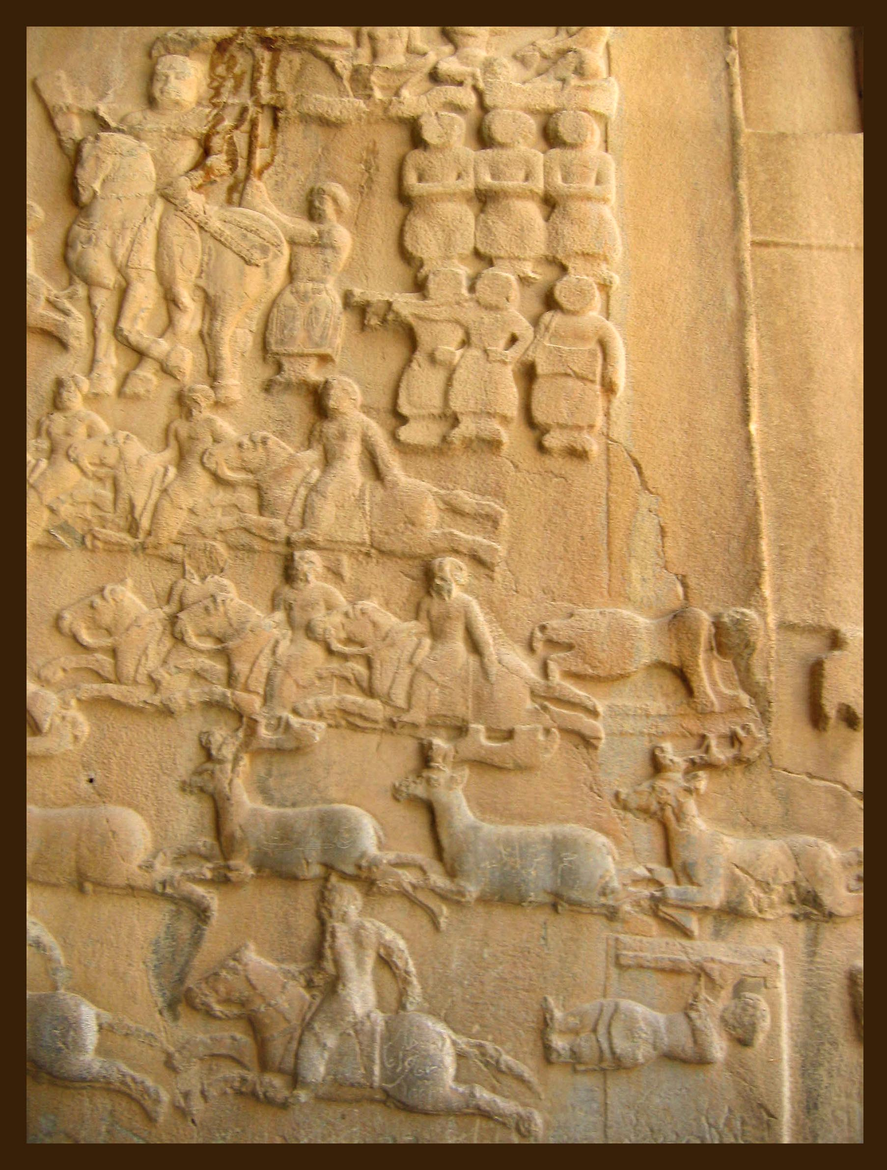 Detail of the deer hunting scene rock relief at Taq-e Bustan said "Taq-e Bustan VI", carved by Sasanian king Khosrow II. Province of Karmanshah, Iran.